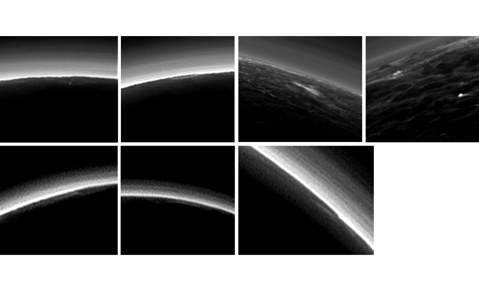 Pluto's present, hazy atmosphere is almost entirely free of clouds, though scientists from NASA's New Horizons mission have identified some cloud candidates after examining images taken by the New Horizons Long Range Reconnaissance Imager and Multispectral Visible Imaging Camera, during the spacecraft's July 2015 flight through the Pluto system. All are low-lying, isolated small features-no broad cloud decks or fields - and while none of the features can be confirmed with stereo imaging, scientists say they are suggestive of possible, rare condensation clouds.